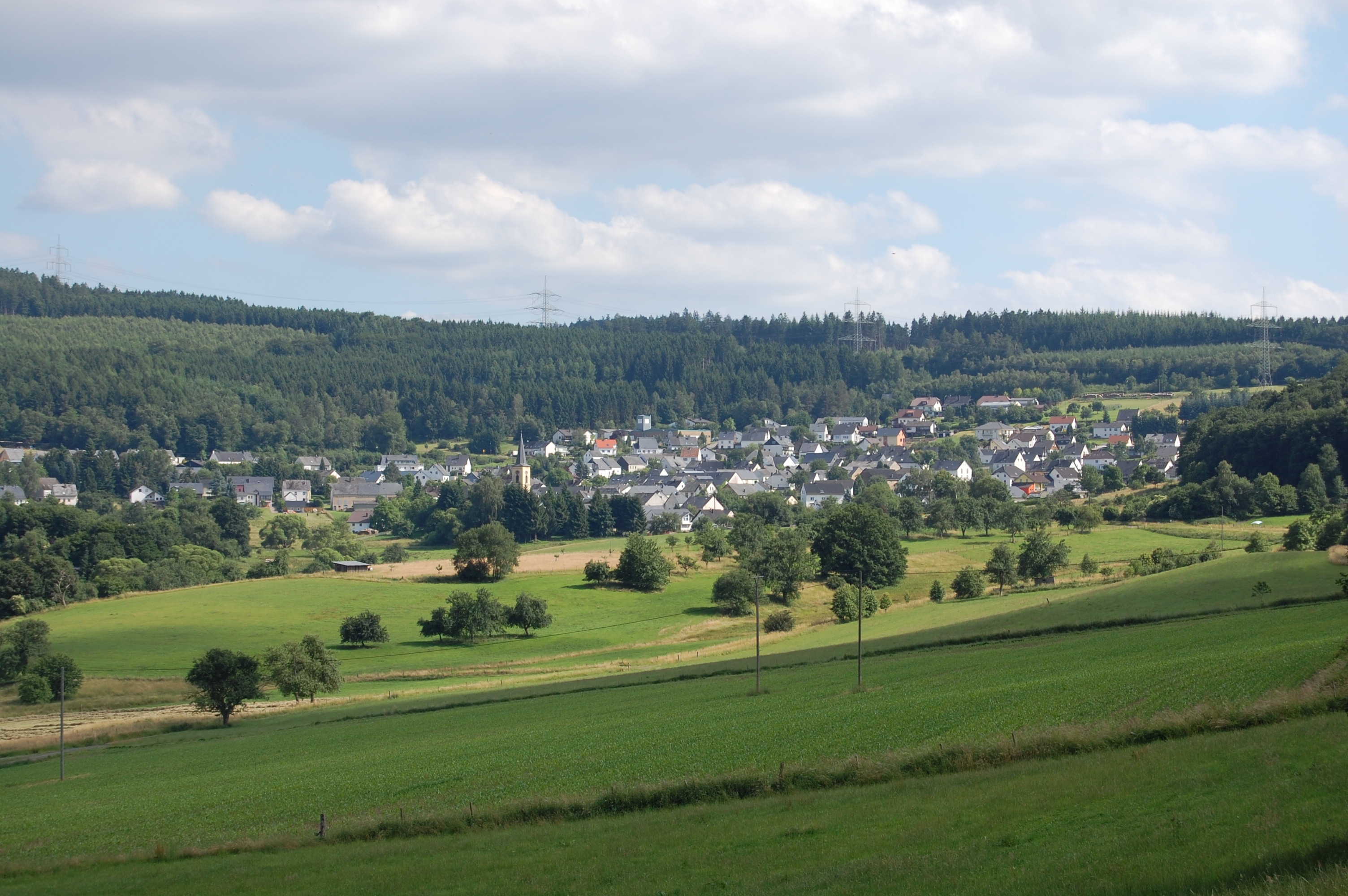 Village Farschjweiler in the Hunsrück landscape, Germany.